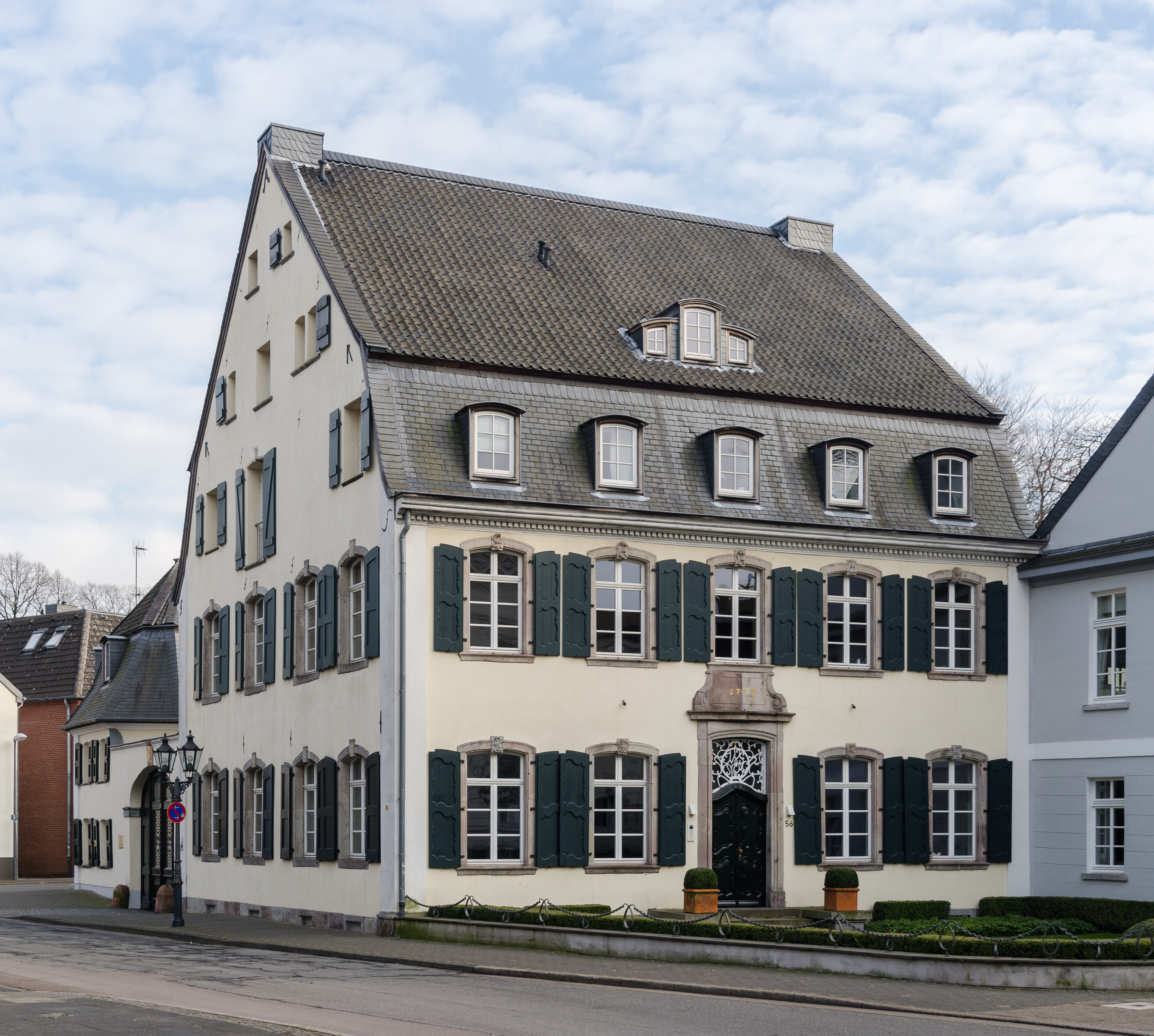 Krefeld (North Rhine-Westphalia, Germany) – district Uerdingen – manor “Haus Neuhofs”